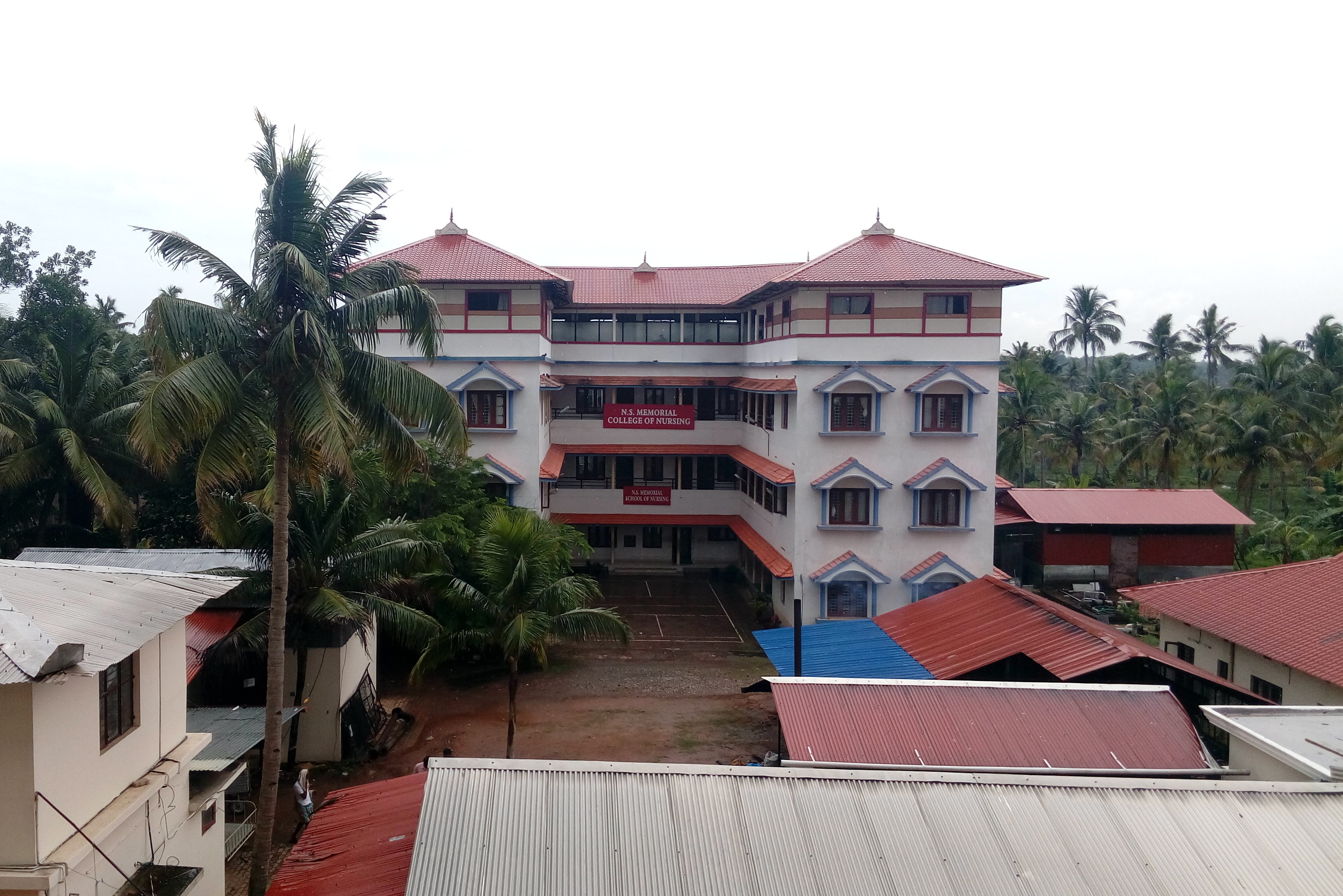 N.S Memorial College of Nursing is situated at Palathara, NH Bypass, Kollam city